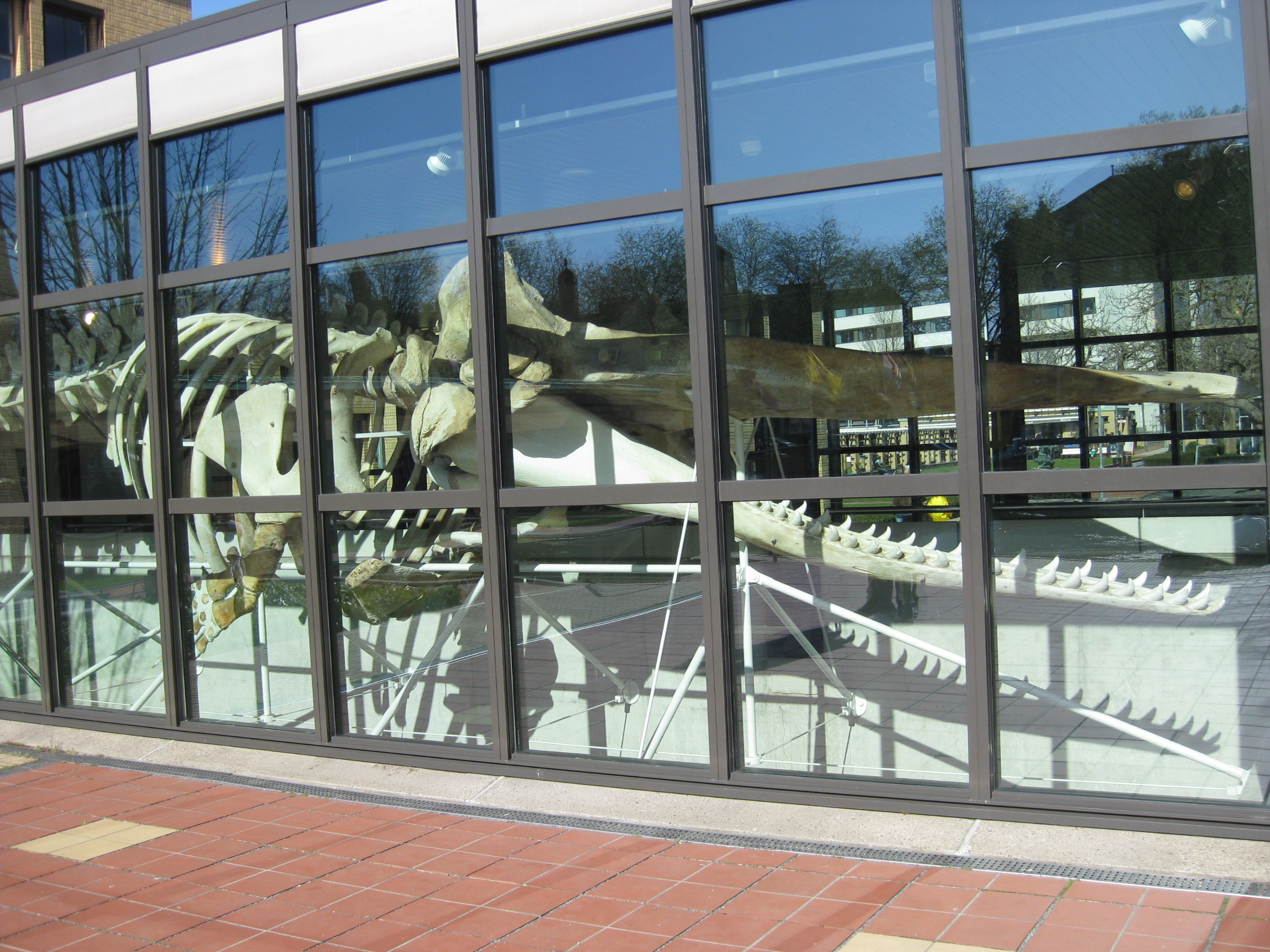 Museon museum of science, The Hague, Netherlands. Display of Ichthyosaur in lobby viewed from outside.